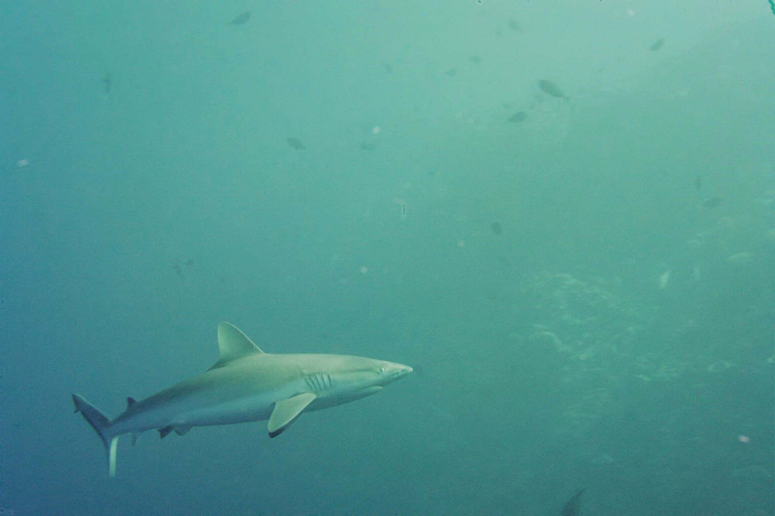 Grey Reef Shark in ocean near the western reef pass, Taongi Atoll, RMI